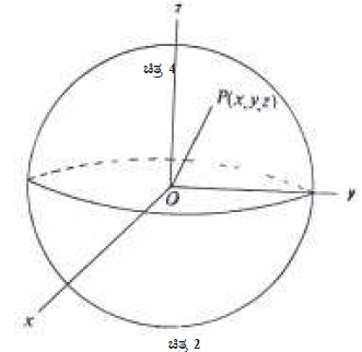 diagram